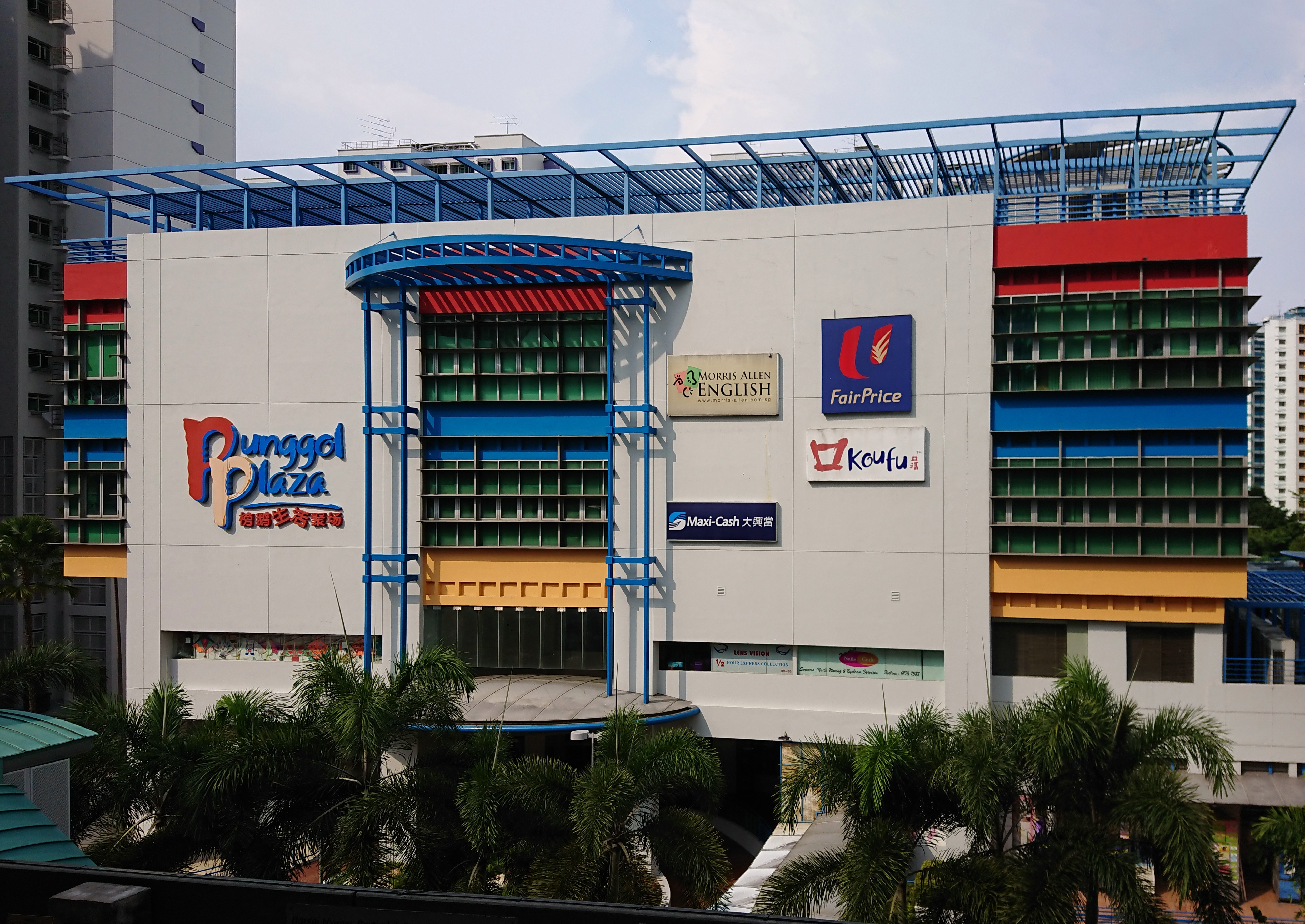 Punggol Plaza, taken with Xperia XZ Premium in 2018. Punggol, Singapore